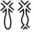 Rongorongo glyph 67